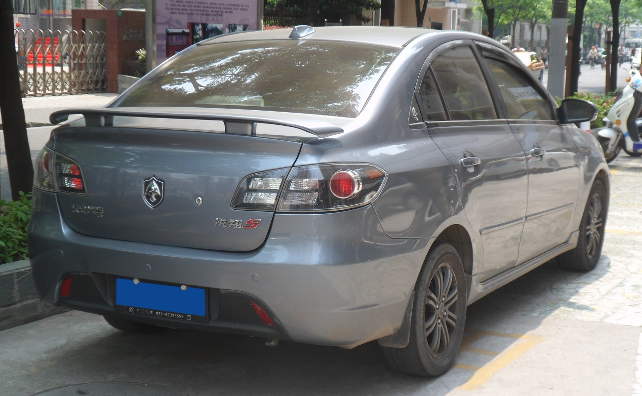 Chang'an Alsvin sedan photographed in Shanghai, China.